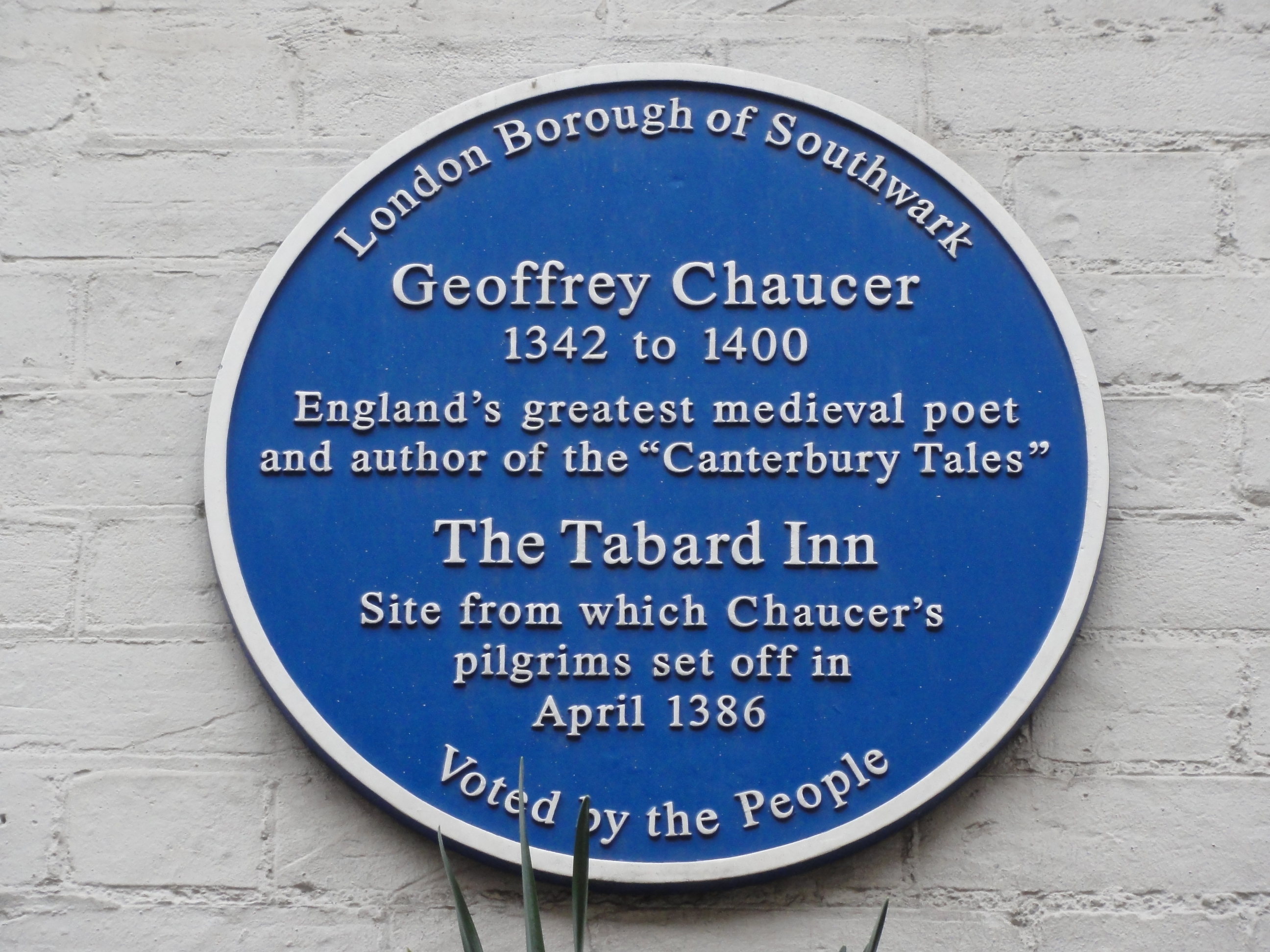 Blue plaque marking the location of the Tabard Inn.